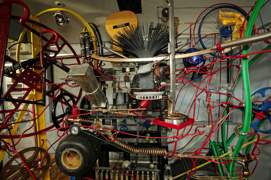 The sport and celebrity module of Chablais Scope, kinetic mobile of 39 meters, realized in 2014 by Pascal Bettex, Swiss artist. In total, Chablais Scope presents the striking facets of the Swiss Chablais region, on six modules.